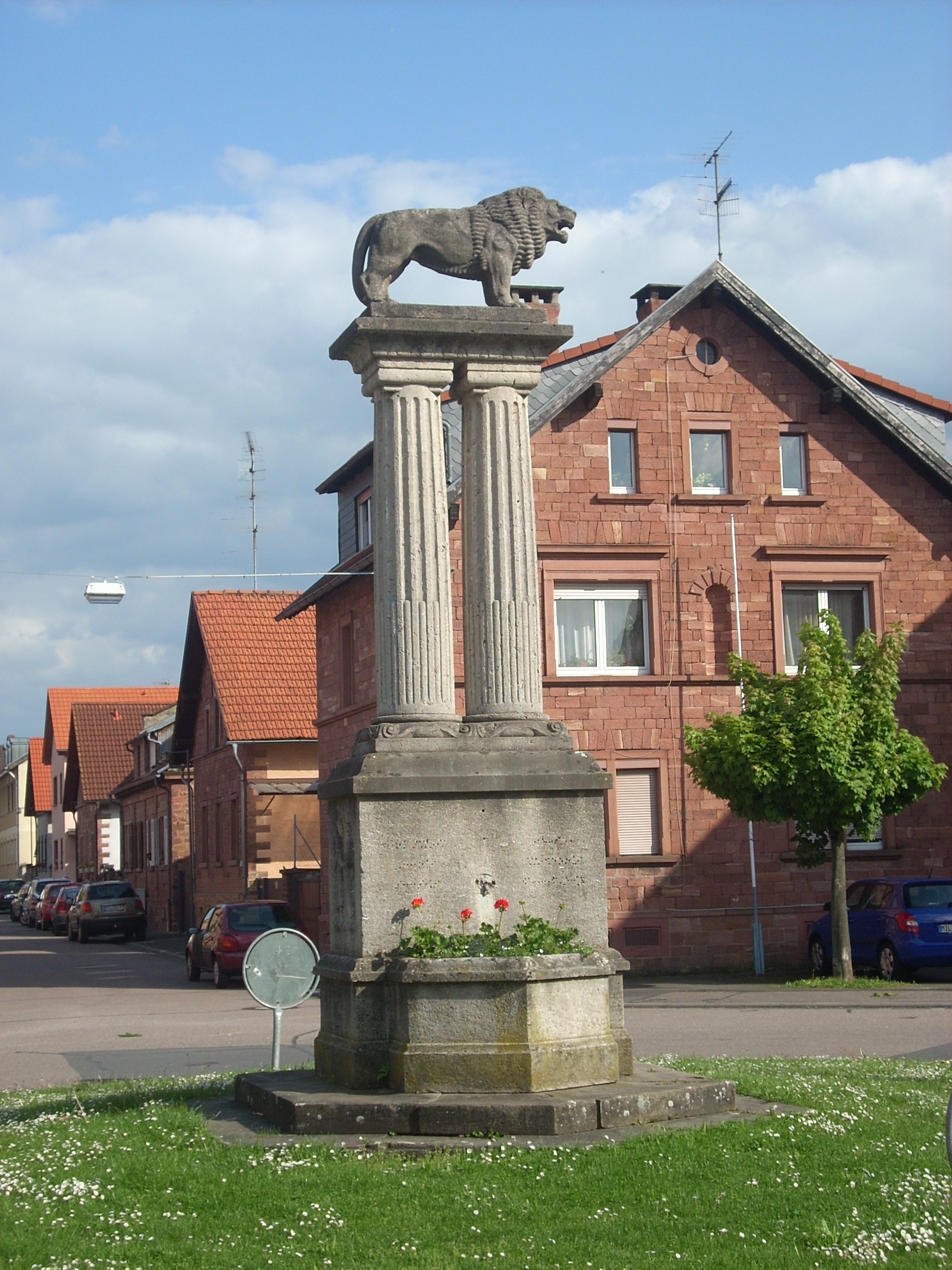 Wörth am Main